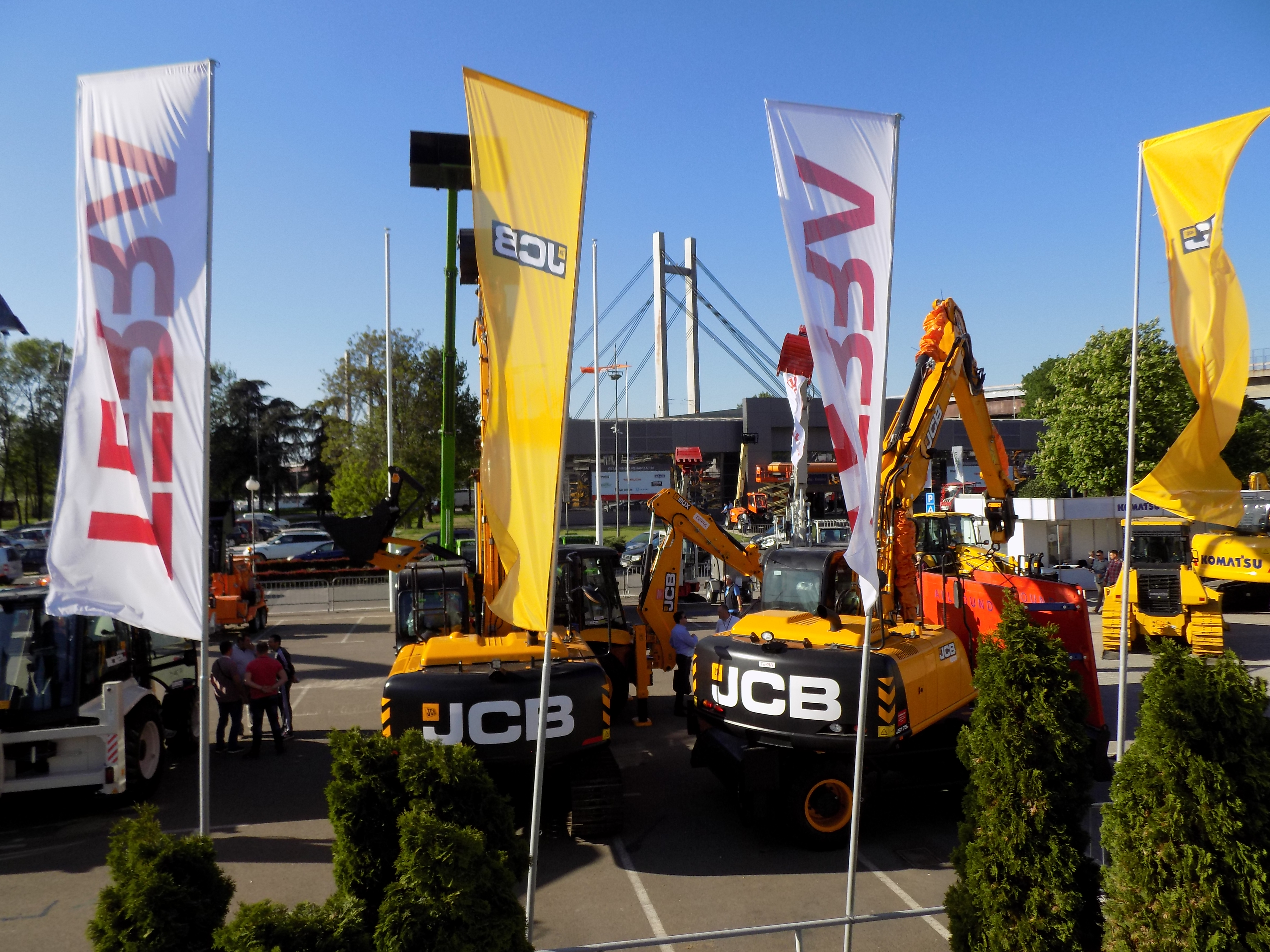 44. SEEBBE – BUILDING TRADE FAIR (UFI), April 18 – 21, 2018